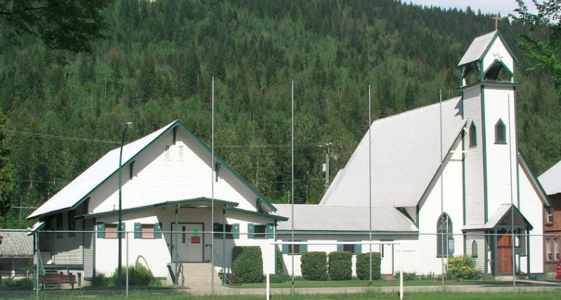 Revelstoke BC Anglican Church